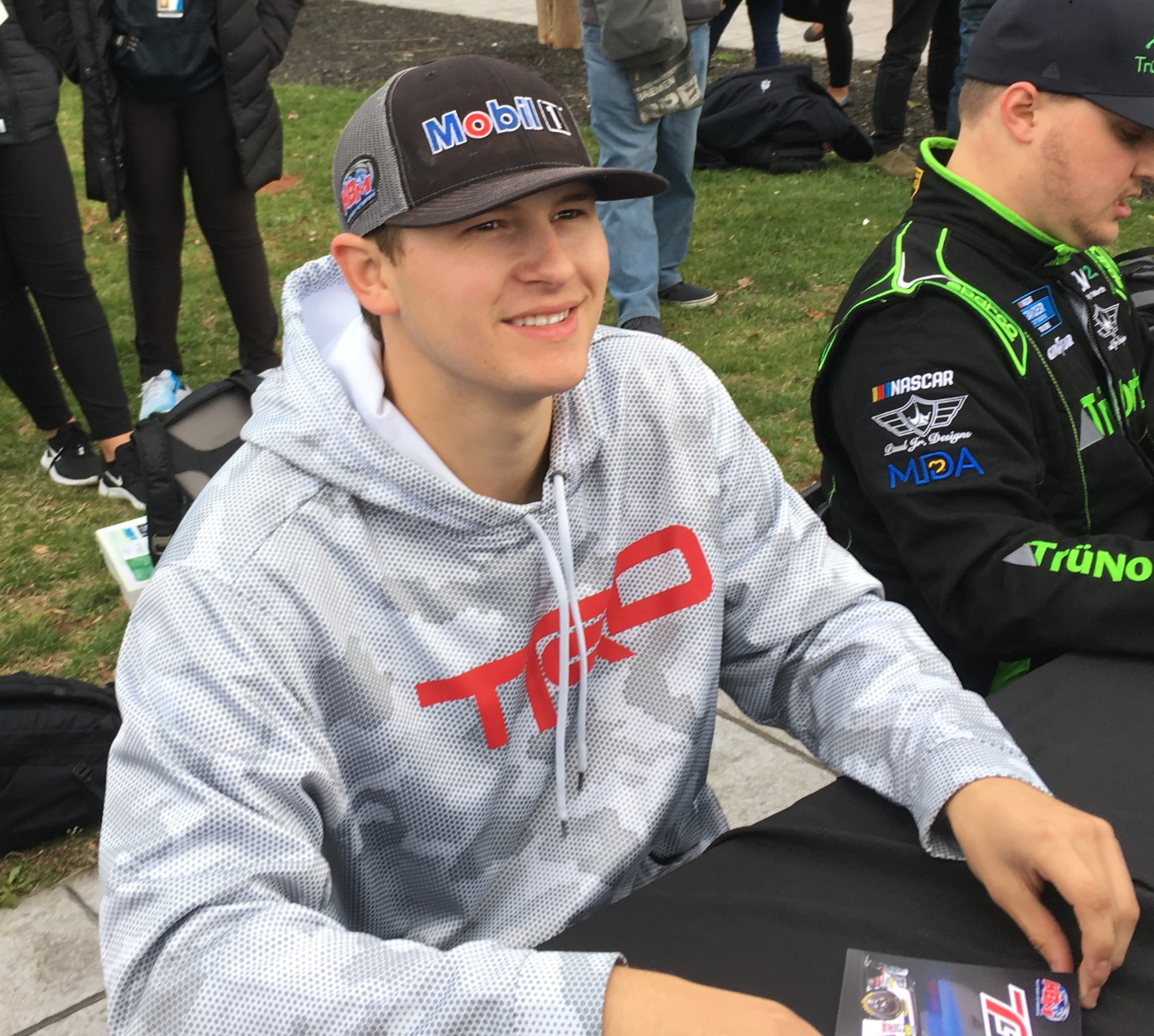 Todd Gilliland, driver of the #4 truck for Kyle Busch Motorsports, at an autograph session at Martinsville Speedway.